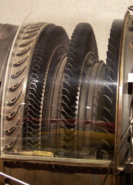 The trubine rotor of a GE J79 turbojet engine.